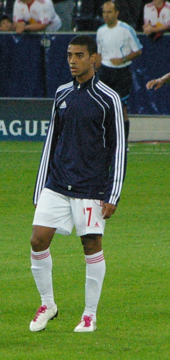 midfielder FC Salzburg